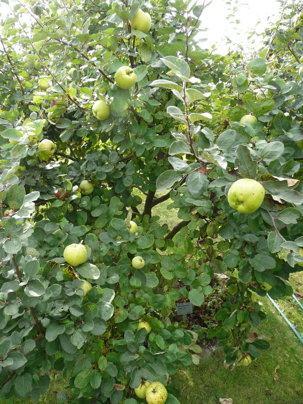 Cydonia oblonga cv. Konstantinopler Apfequitte